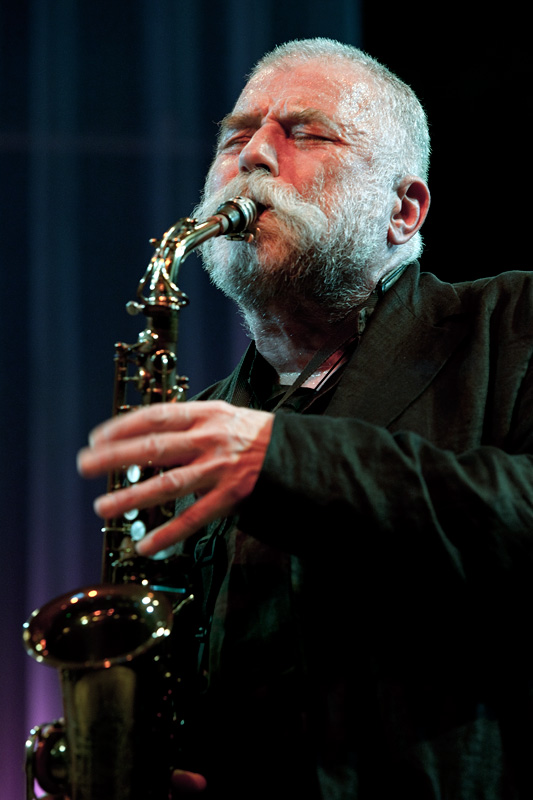 Peter Brötzmann, moers festival 2010